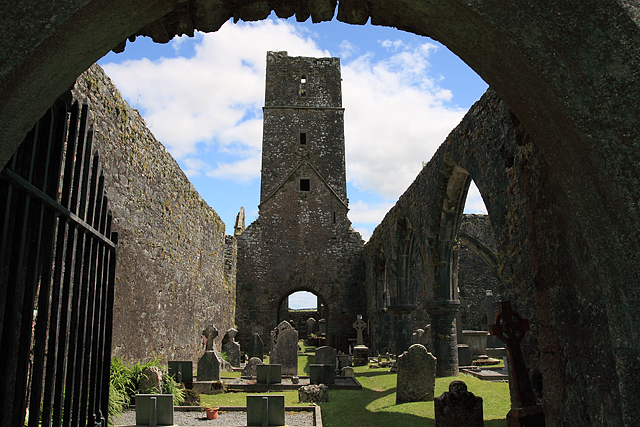 Kilcrea Friary (2) A view of the ruined interior.